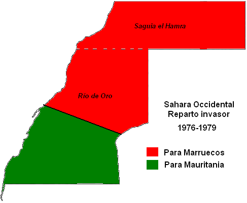 Western Sahara invasions 1976-1979